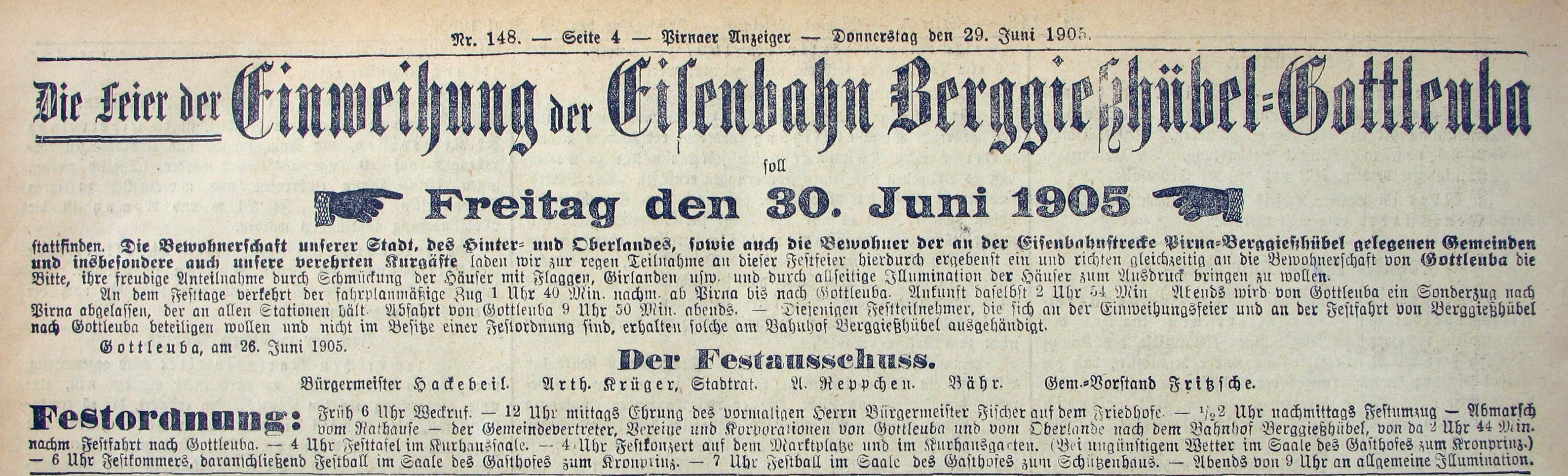 This image shows the newspaper announcement from the opening of the railway line Berggießhübel-Bad Gottleuba.